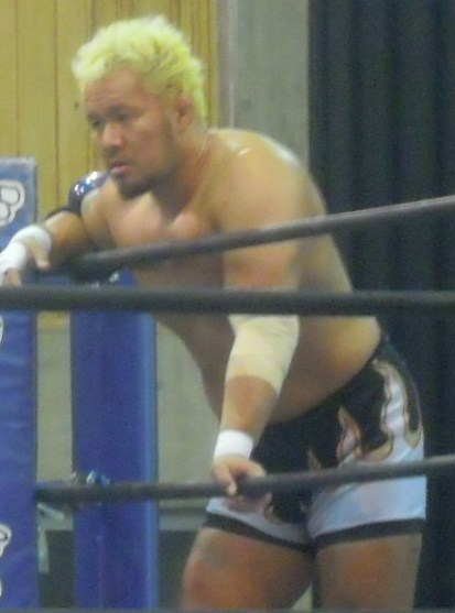 Japanese professional wrestler, Togi Makabe. Nov 20 2011 NJPW Tatebayashi.